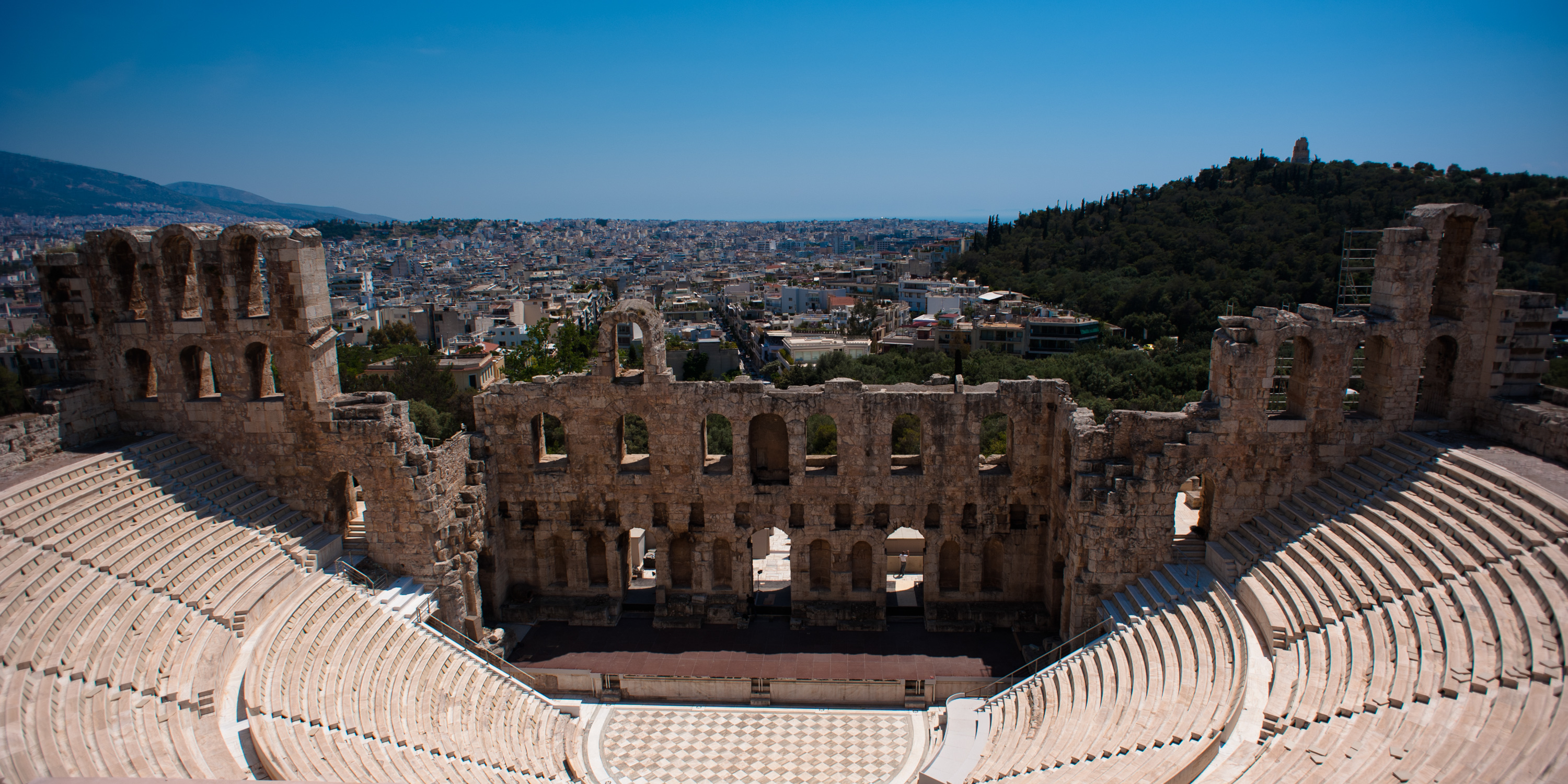 Athens cityscape from the Odeon of Herodes Atticus. Athens, Greece.